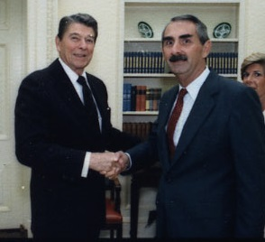 Ronald Reagan and David C. Fields in the Oval Office in 1987